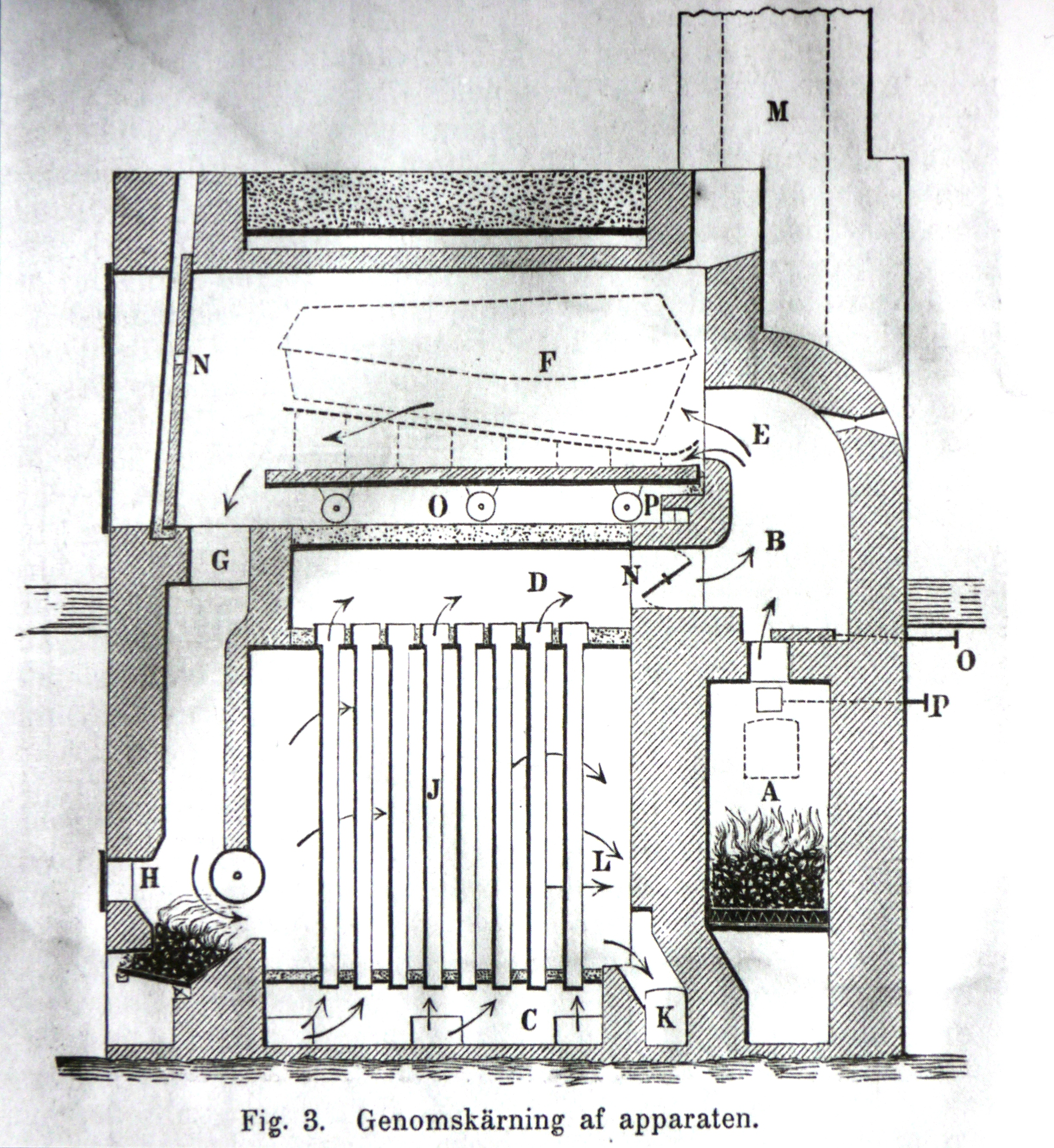 Oven for disposal of deceased. Source: Brochure from 1883 at Gothenburg City Museum.